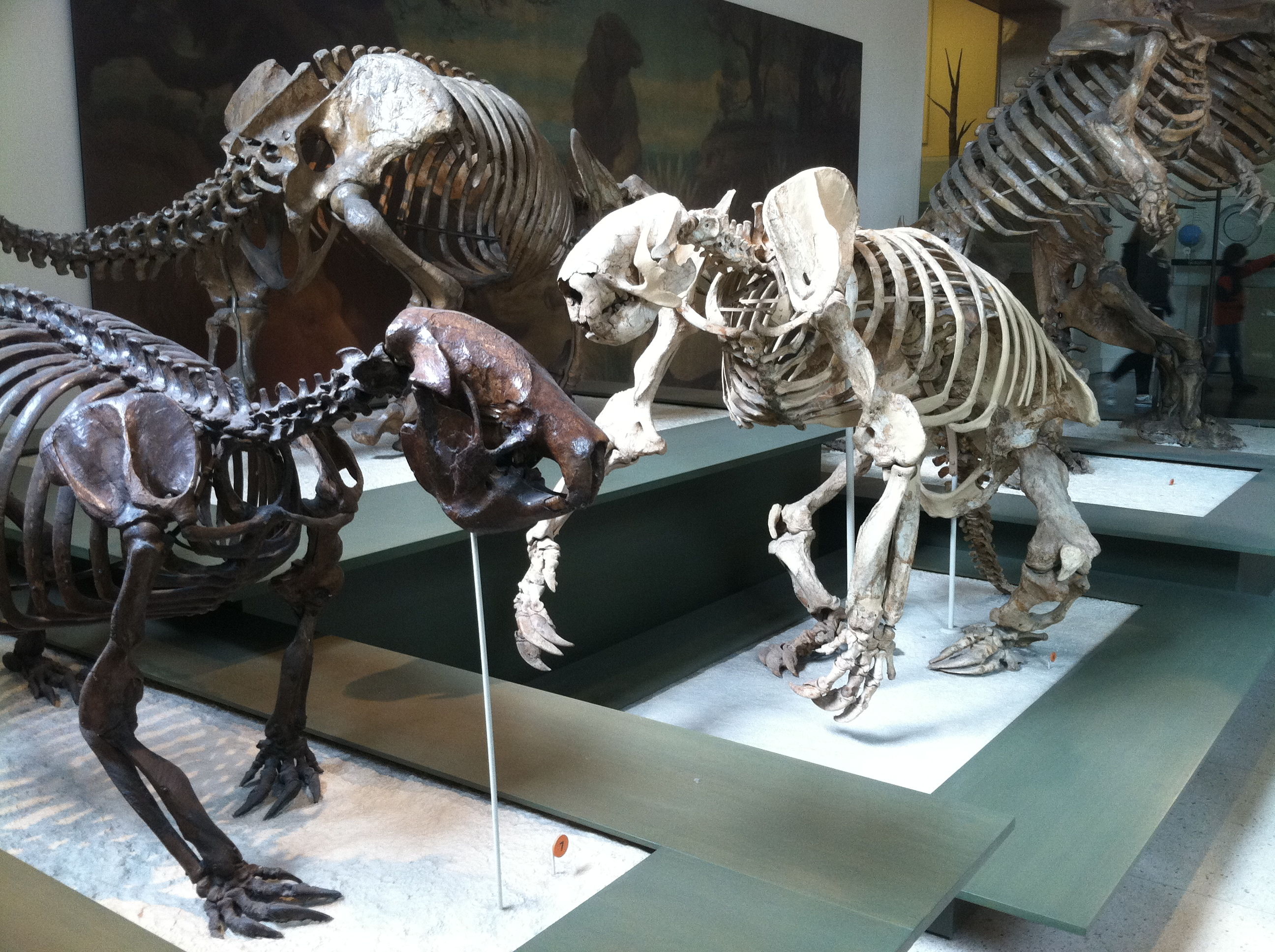 Foreground: Megalocnus rodens (left) from the Pleistocene of Cuba and Megalonyx wheatleyi (right) from the Pleistocene of the central and eastern US. Background: Scelidotherium cuvieri (left) and Glossotherium robustus (right) both from the Pleistocene of Argentina with Lestodon armatus behind it (you can see its ribcage), also from the Pleistocene of Argentina and a few surrounding nations. In the The Hall of Primitive Mammals at the American Museum of Natural History in New York. I like this exhibit. It demonstrates the huge diversity of giant ground sloths in the Pleistocene (2.58 mya to ~11,000 years ago), with highly divergent morphologies and life styles all across the New World. At the end of the Pleistocene however, humans invaded North and South America and everything changed. Suddenly, all ground sloths went extinct. Except of course, Megalocnus rodens of Cuba in the Caribbean, where they remained at least until around ~4,000 years ago. The first known human arrivals onto the island were around 5,000 years ago, long after the colonization of the mainland continents. For some reason these specimens were mounted in the Hall of Primitive Mammals (probably due to a lack of space in the Hall of Advanced Mammals, but it might also be due to the fact that they're xenarthrans, long thought of as basal placentals, although modern molecular data has challenged this view), but this is deceiving. If it were not for the environmental havoc and subsequent mass extinction at the end of the last ice age that humans almost certainly exacerbated, all of these massive beasts would be considered highly advanced megaherbivores of the modern realm.